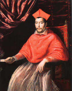 Cardinal Pietro Aldobrandini, potrait by Ottavio Leoni